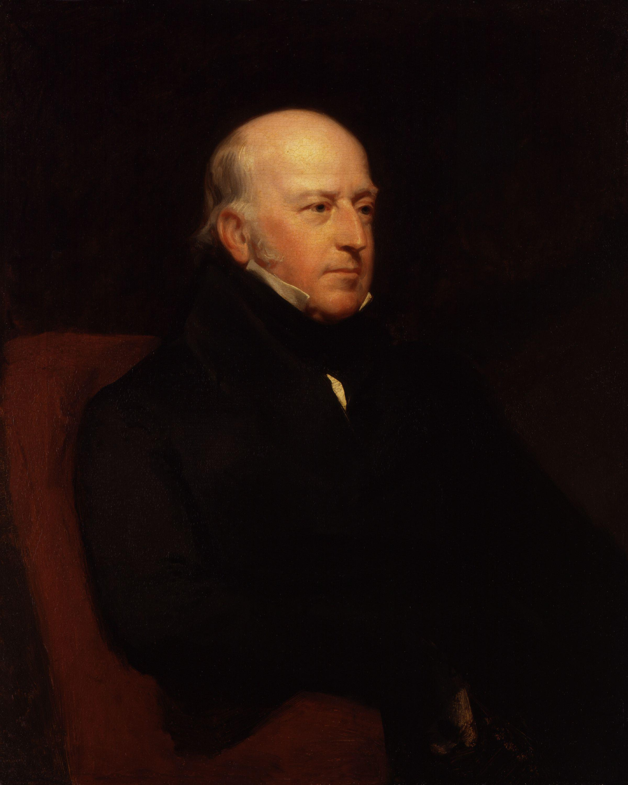 Sir Edward Codrington, hero of trafalgar